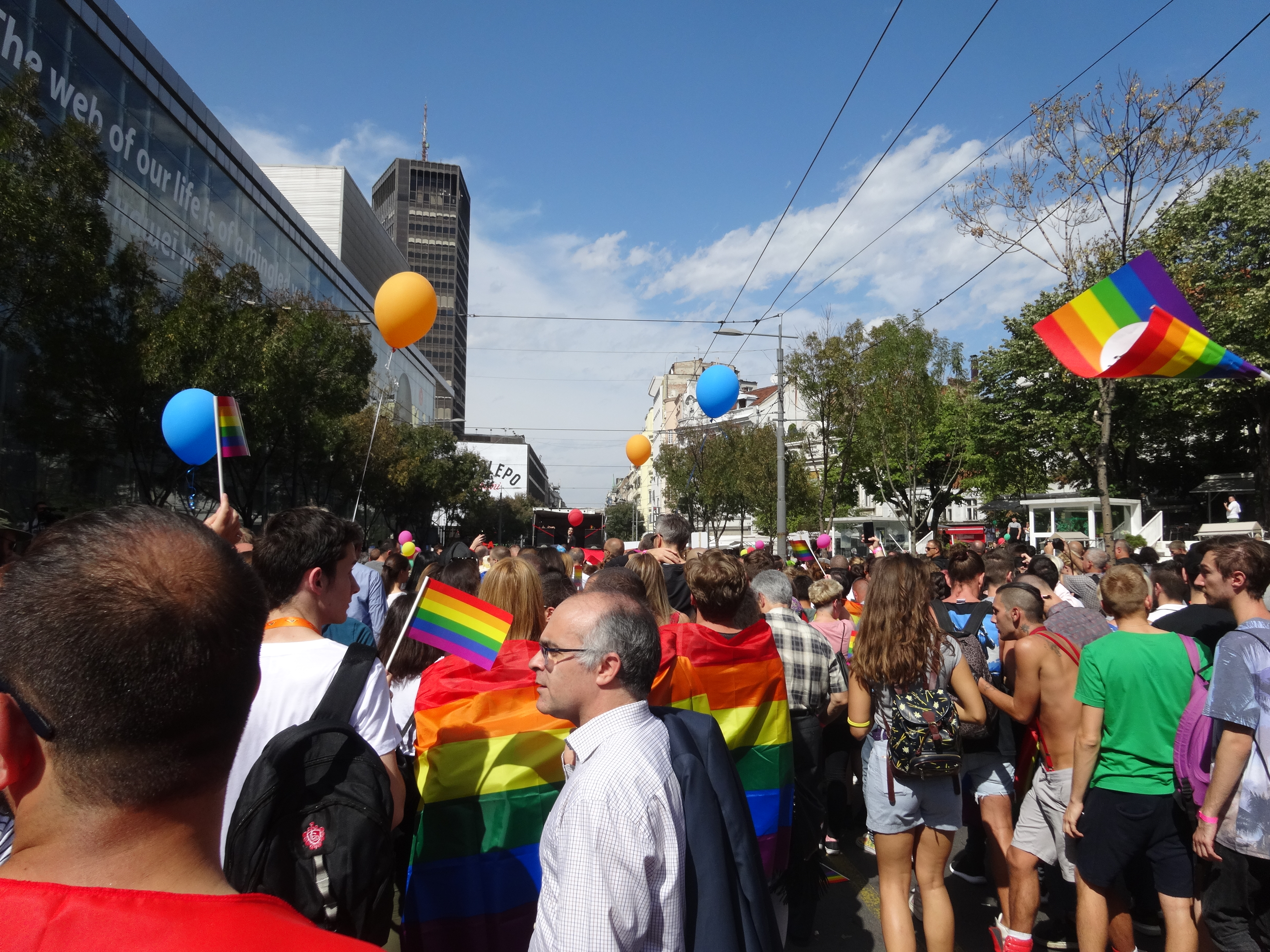 Belgrade Pride 2017, September 17, 2017.